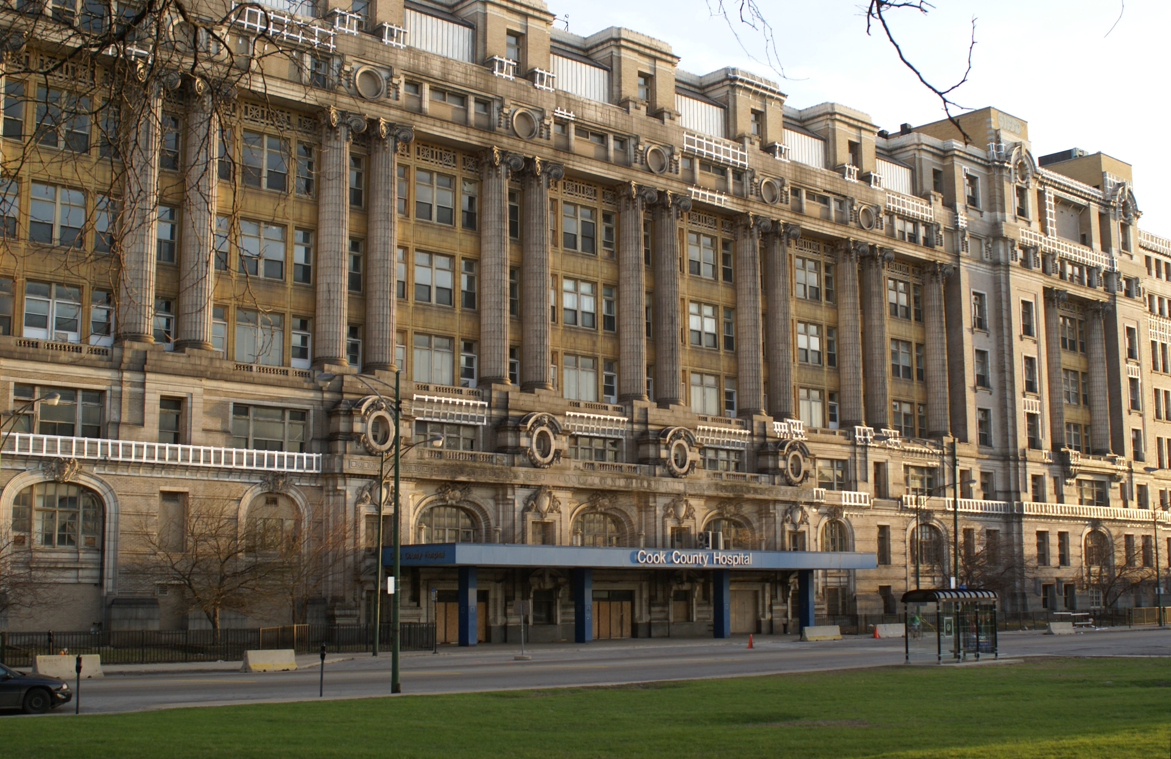 Front entrance of the old Cook County Hospital.